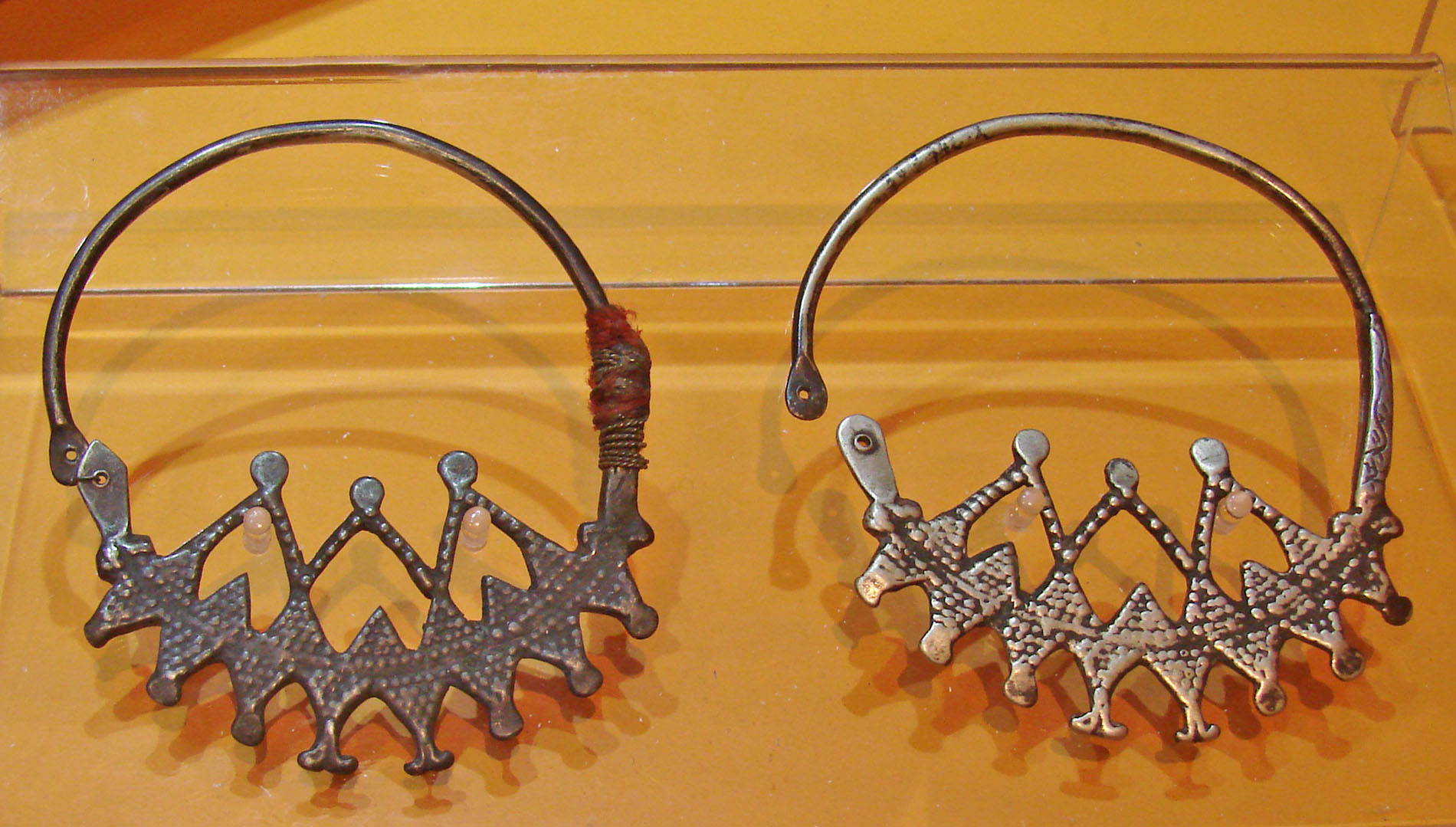 jewel chaouis